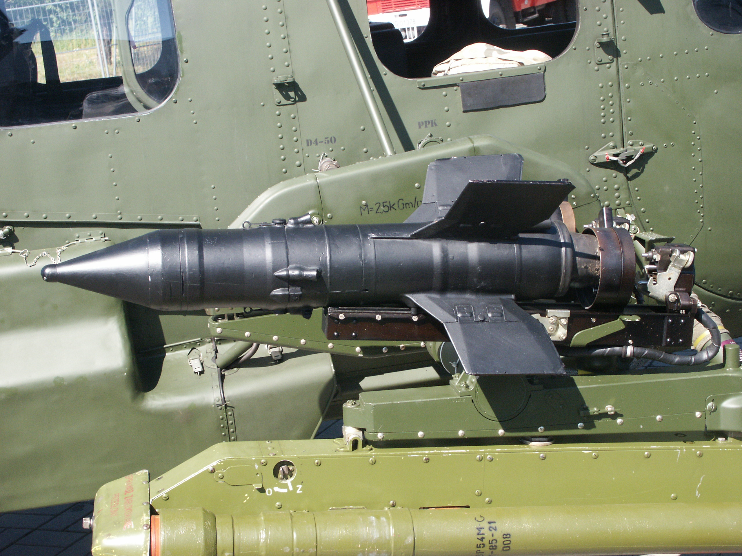 Polish attack helicopter Mil Mi-2URP-G - 9M14 Malutka (AT-3) missile.